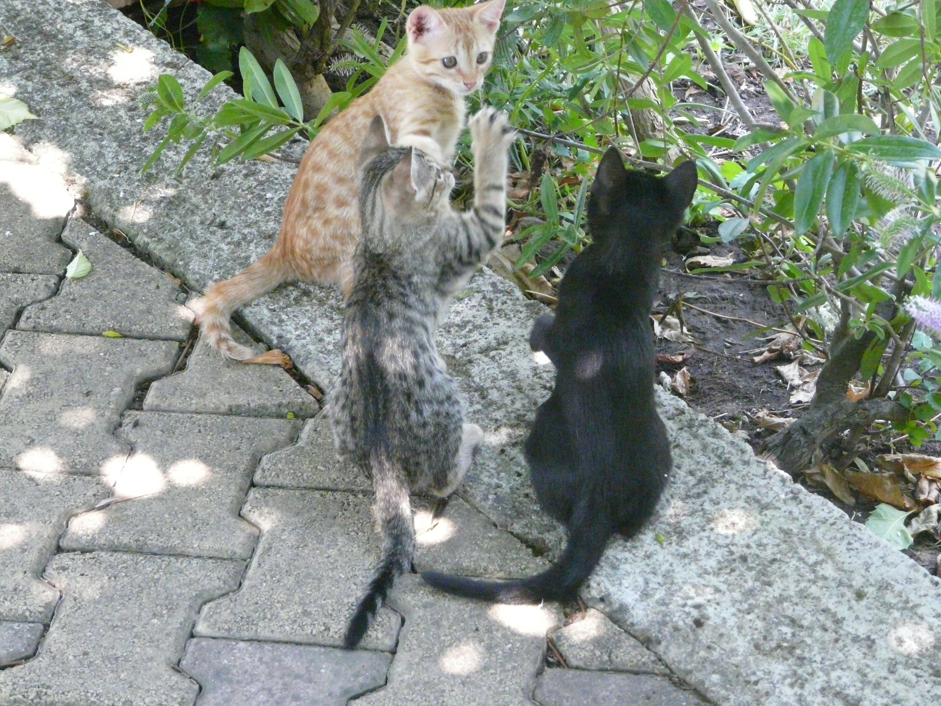 Corfu. Beach or close neighbourhood.